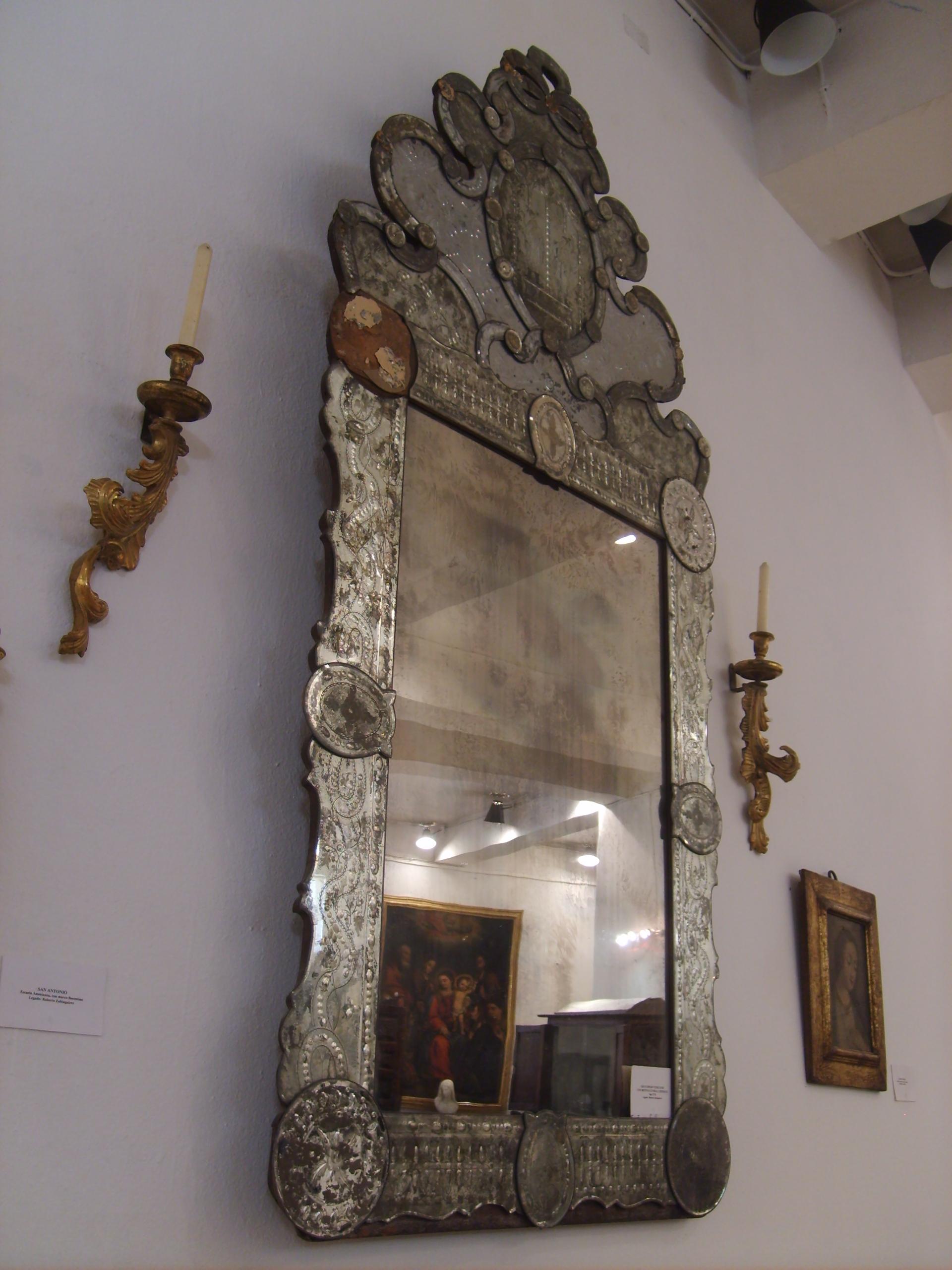 Venetian mirror with chinese motives. 17th century. Museo del Carmen de Maipú, Santiago, Chile.